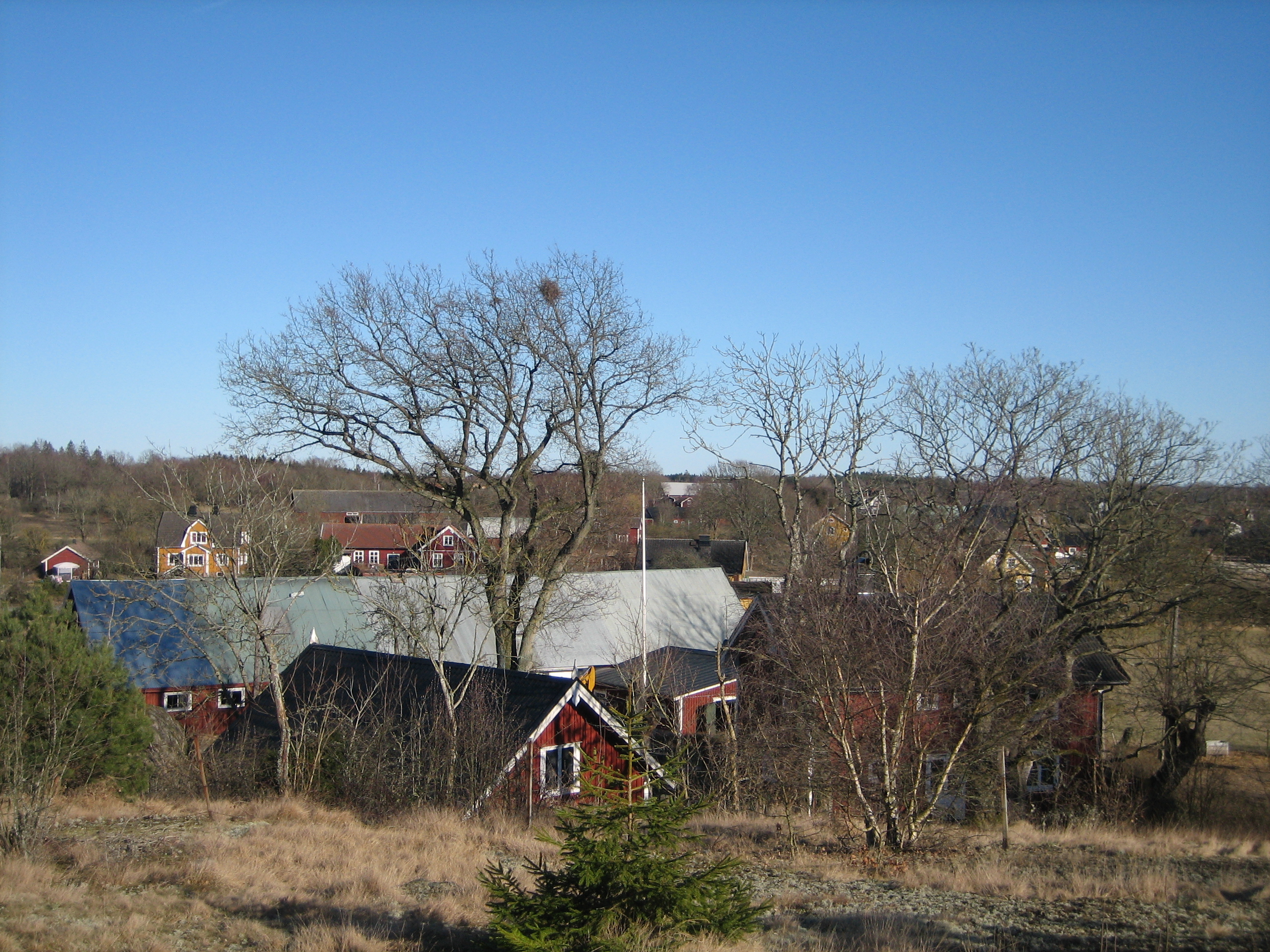 Yxnarum 2012